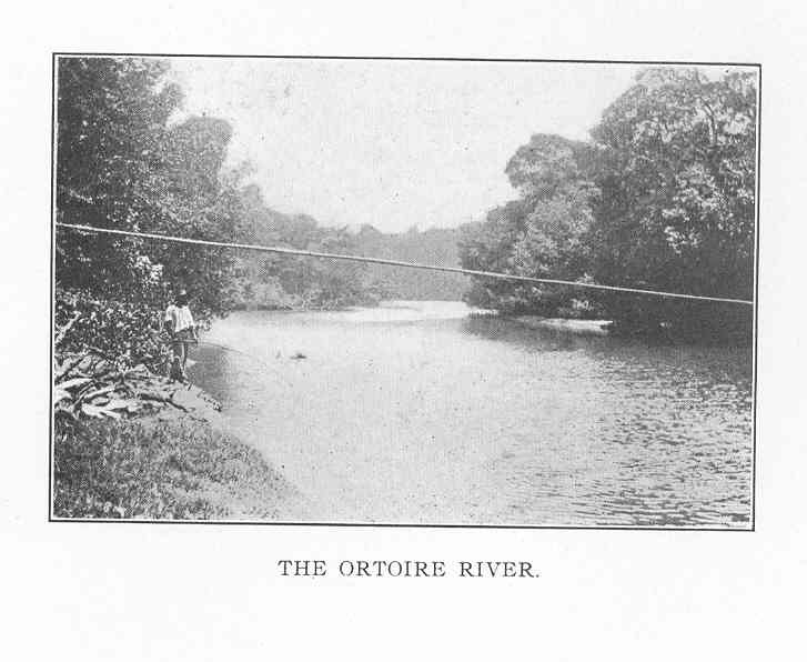 Ortoire River Subject: Ortoire River (Trinidad and Tobago), Rivers--Trinidad and Tobago Geographic Subject: Trinidad and Tobago--Ortoire River Tag: Coasts